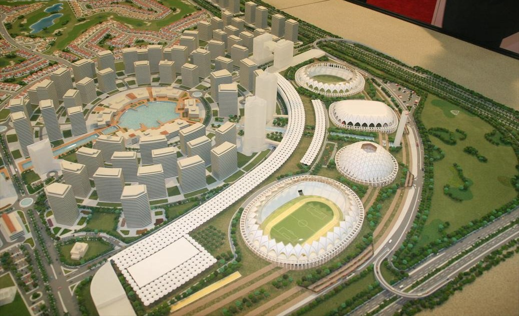 This is a photo showing a model of Dubai Sports City in Dubai, United Arab Emirates on 8 May 2007. The model was at the Cityscape Abu Dhabi 2007.